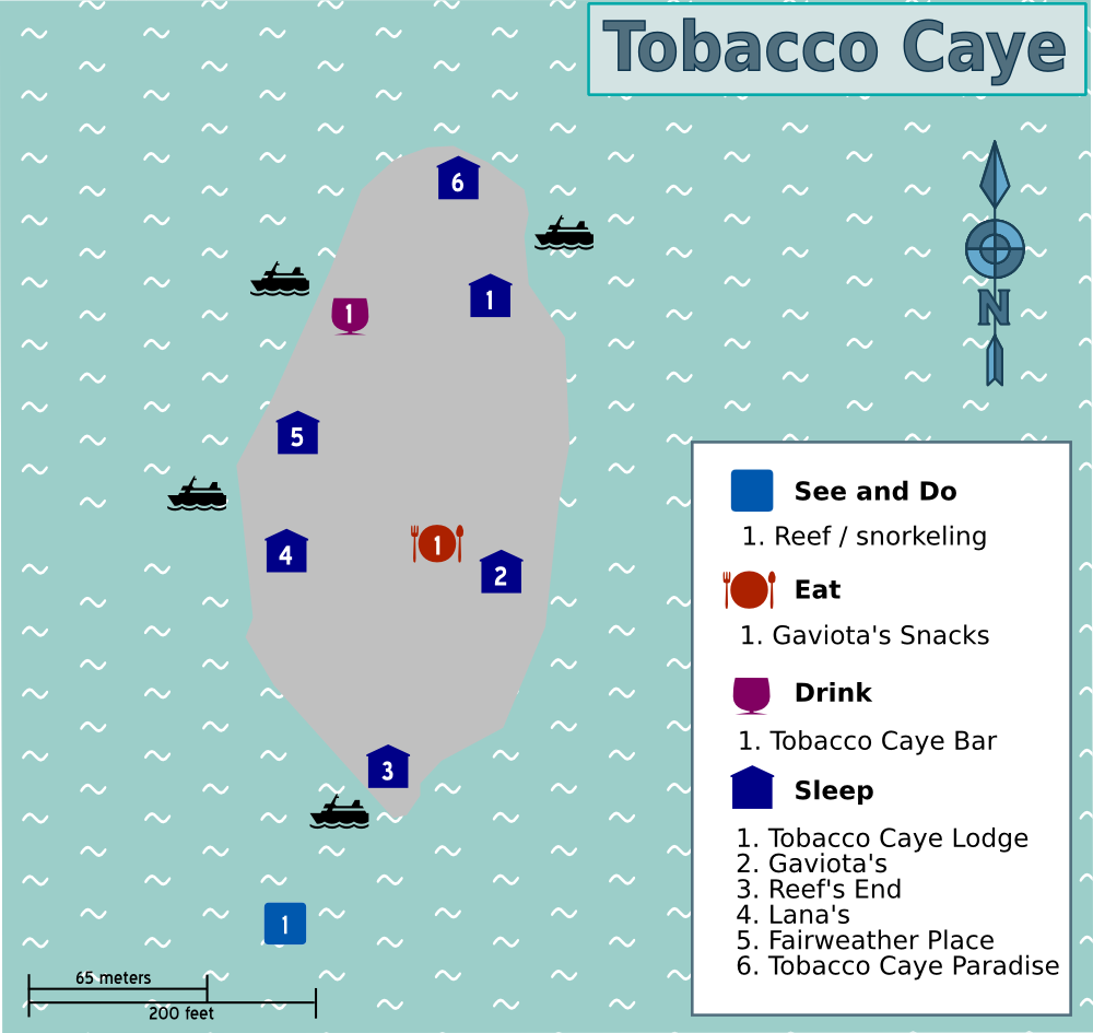 Map of Tobacco Caye, Belize, Tobacco Caye.